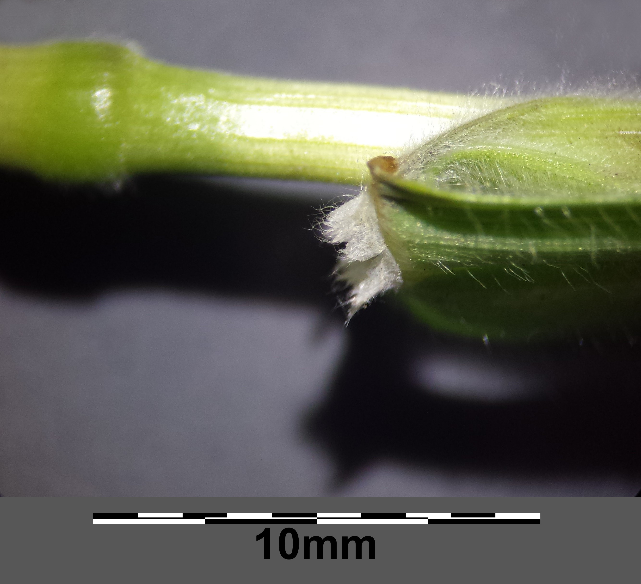 Stipe with leaf and fringed, hairy ligule Taxonym: Bromus hordeaceus subsp. hordeaceus ss Fischer et al. EfÖLS 2008 ISBN 978-3-85474-187-9 Location: Floridsdorf rail station, Vienna-Floridsdorf - ca. 160 m a.s.l. Habitat: ruderal area